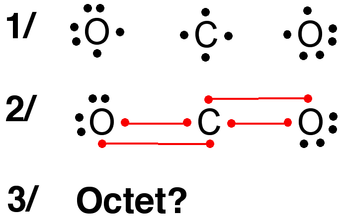 Make a Lewis Structure for CO2